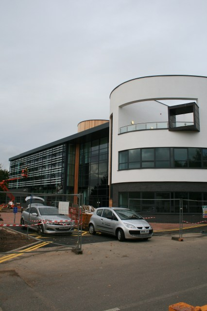 Castle College - Chilwell site. The new building nearly completed. Compare with 10 months ago: 660535.